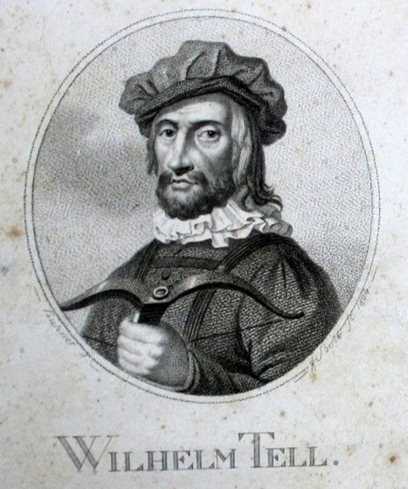 Leonhard Wächter / Veit Weber - Wilhelm Tell Schauspiel Erstausgabe